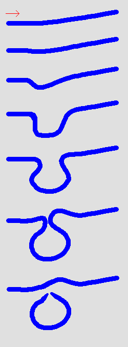 Development of a bend in a river and the creation of an oxbow lake.